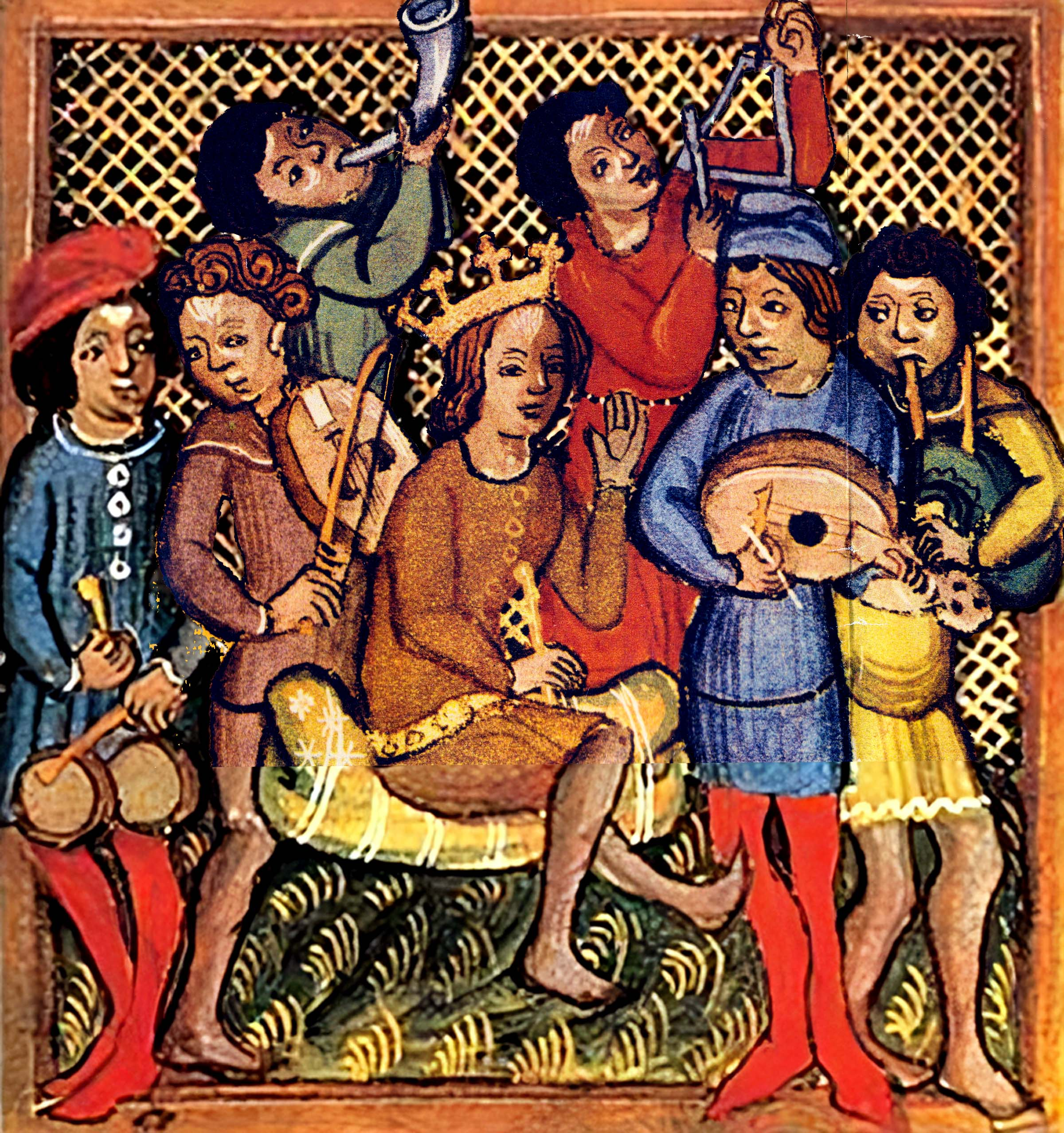 Trobadours. German anonymous., s. XIV. Archiv für Kunst und Geschichte. Berlin.